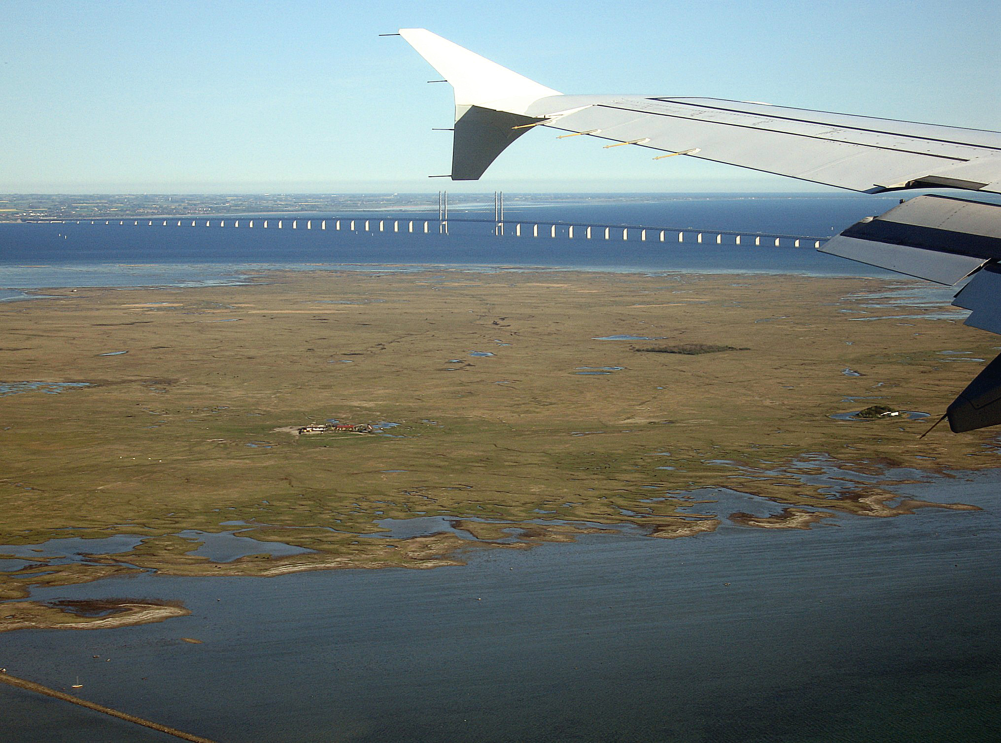 The little island of Saltholm near Copenhagen with the Öresundbridge in the background.